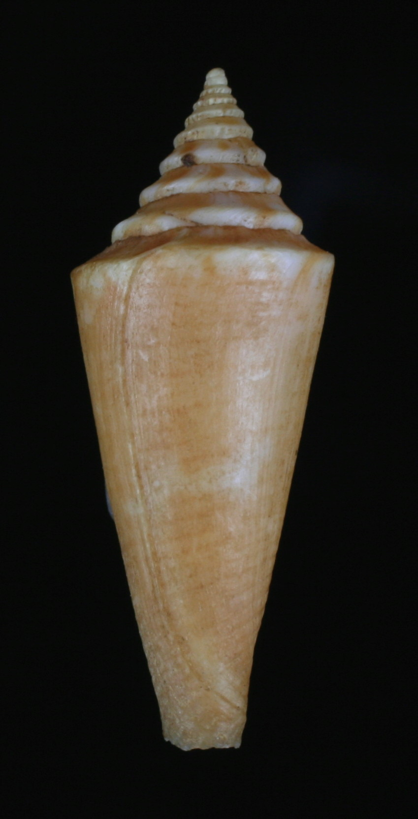 Conidae: Conus nybakkeni (Tenorio, Tucker & Chaney, 2012) (synonym: Gradiconus nybakkeni)